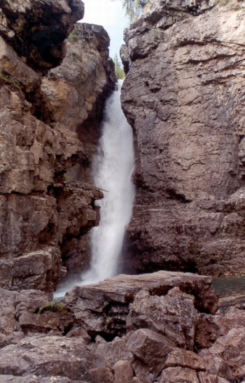 Waterfall in Johnston Canyon, Banff National Park